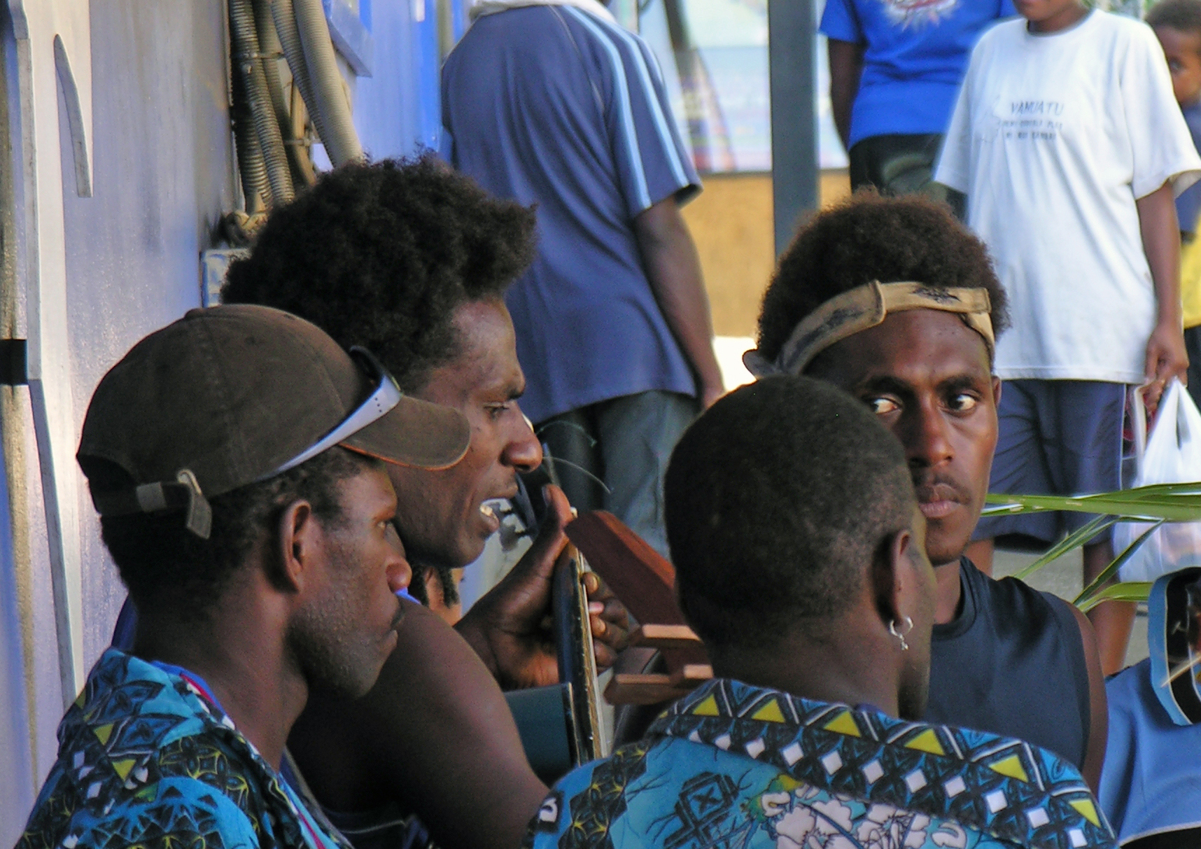 Street band, Port Vila, Vanuatu